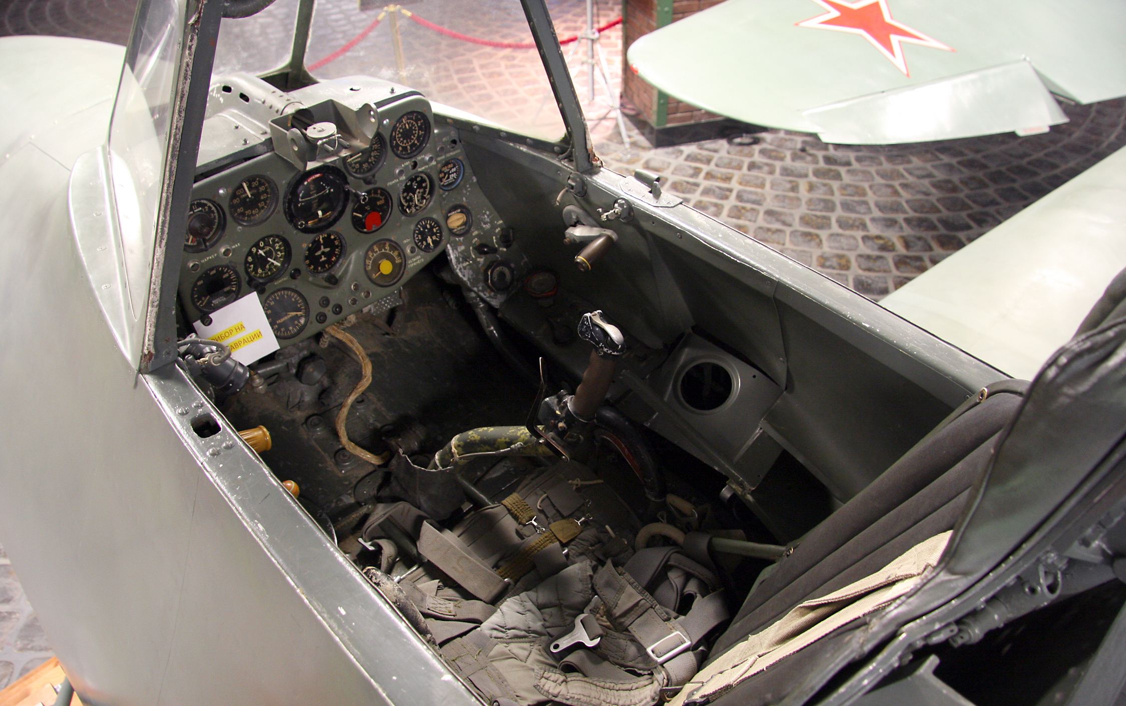 Cockpit of Yakovlev Yak-23UTI trainer aircraft